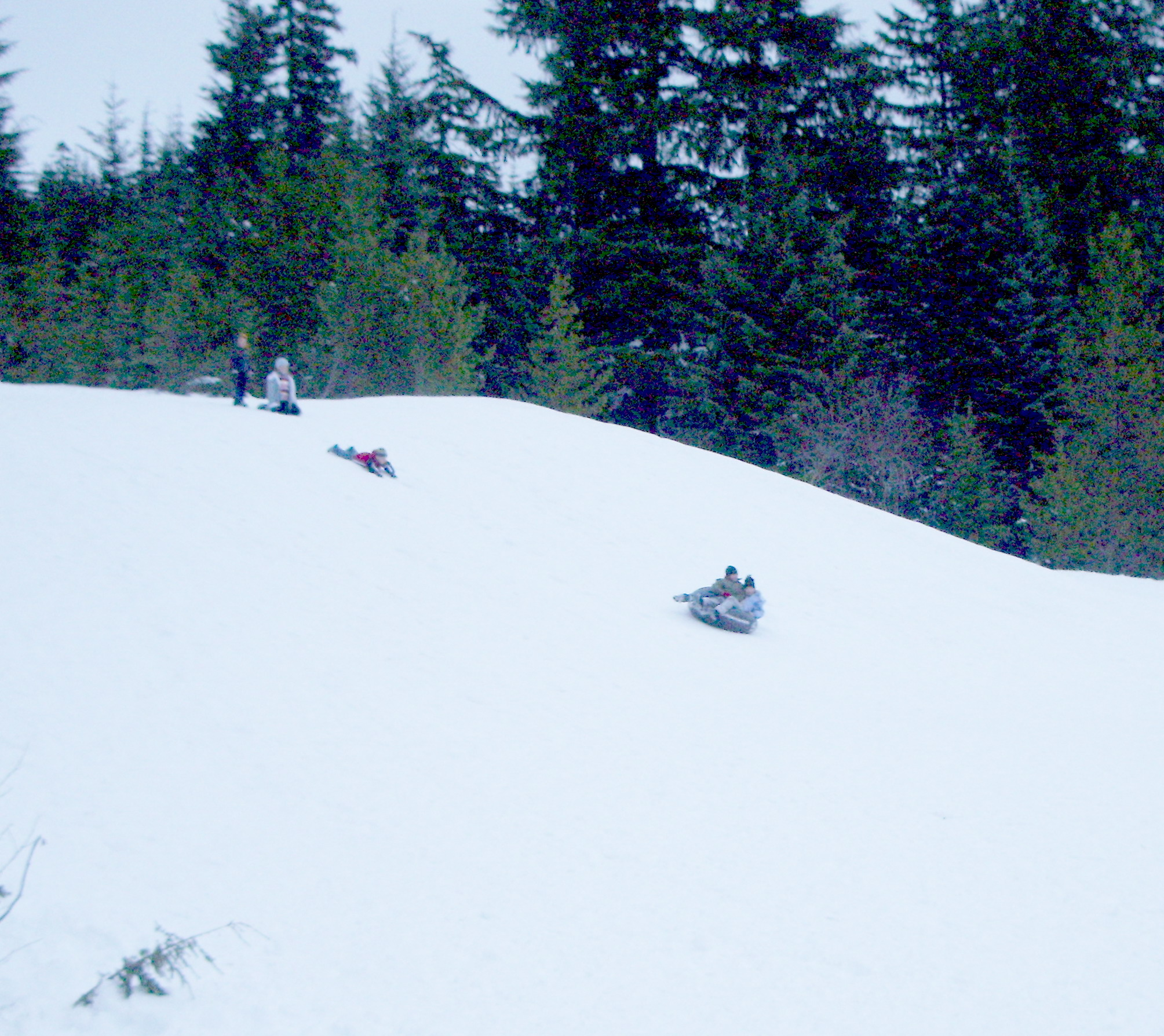 Main snowplay hill at Snow Bunny